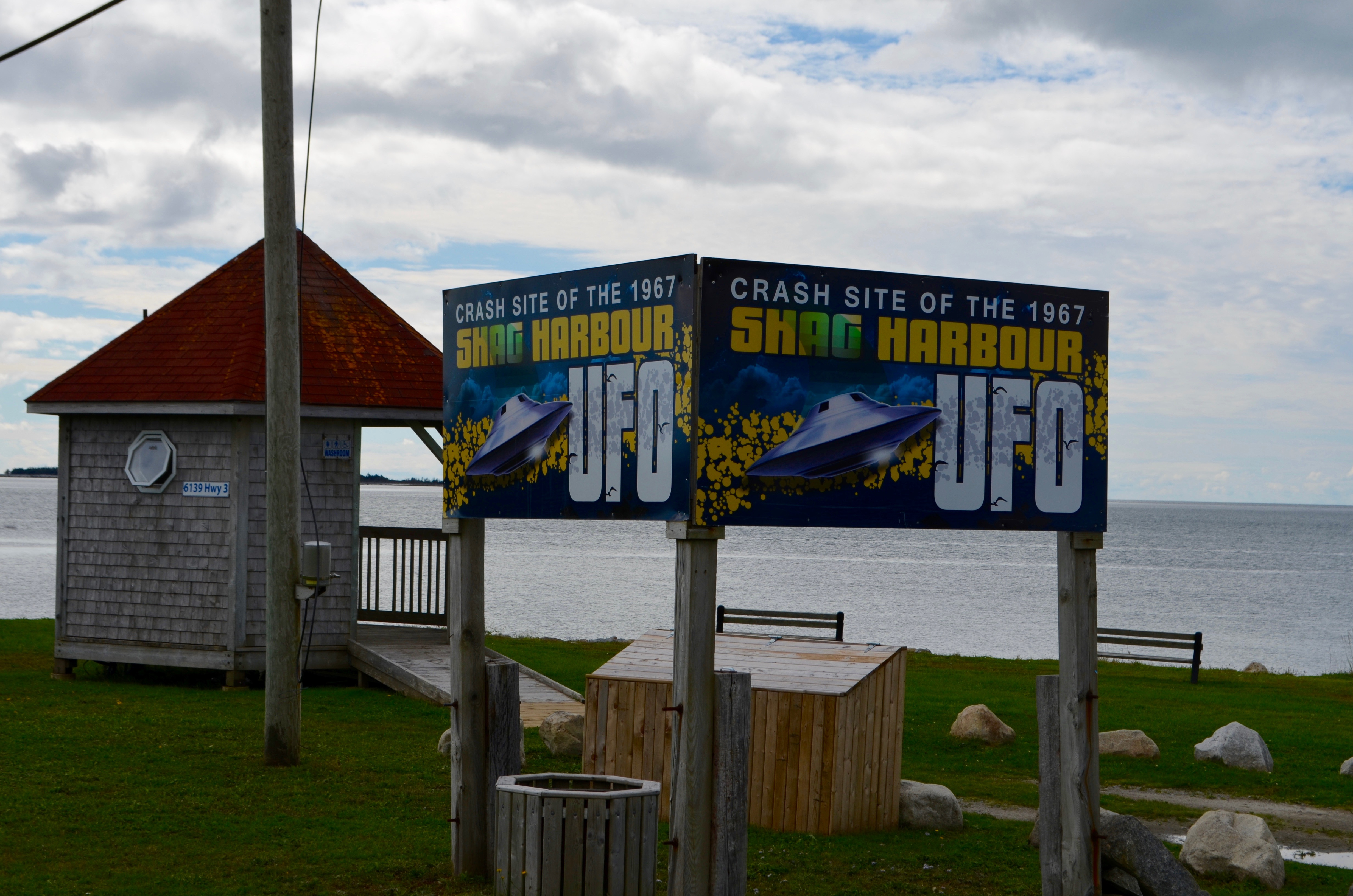 The UFO Gazebo and picnic site can be found about 3 minutes up the road from the Shag Harbour Museum Centre, where visitors can look out on the ocean to the location the object crashed in 1967.